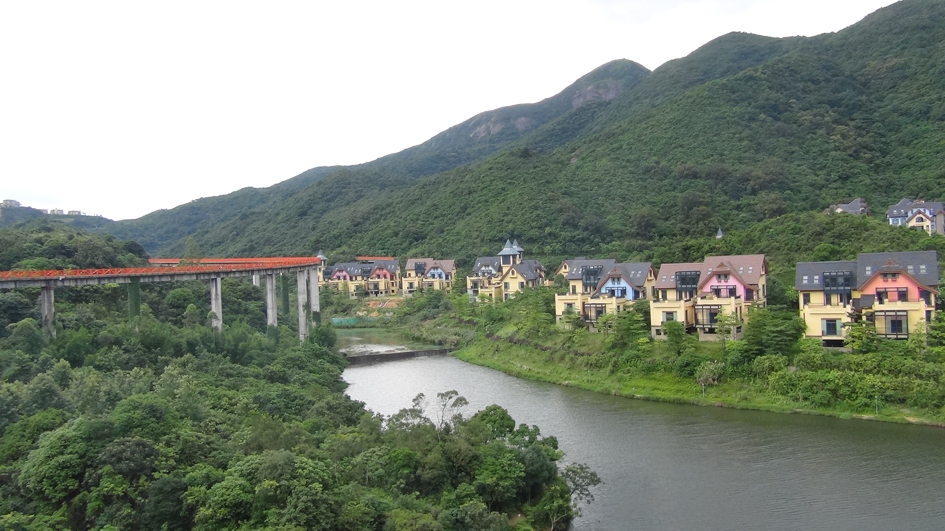 A holiday villa area in OCT East, Shenzhen